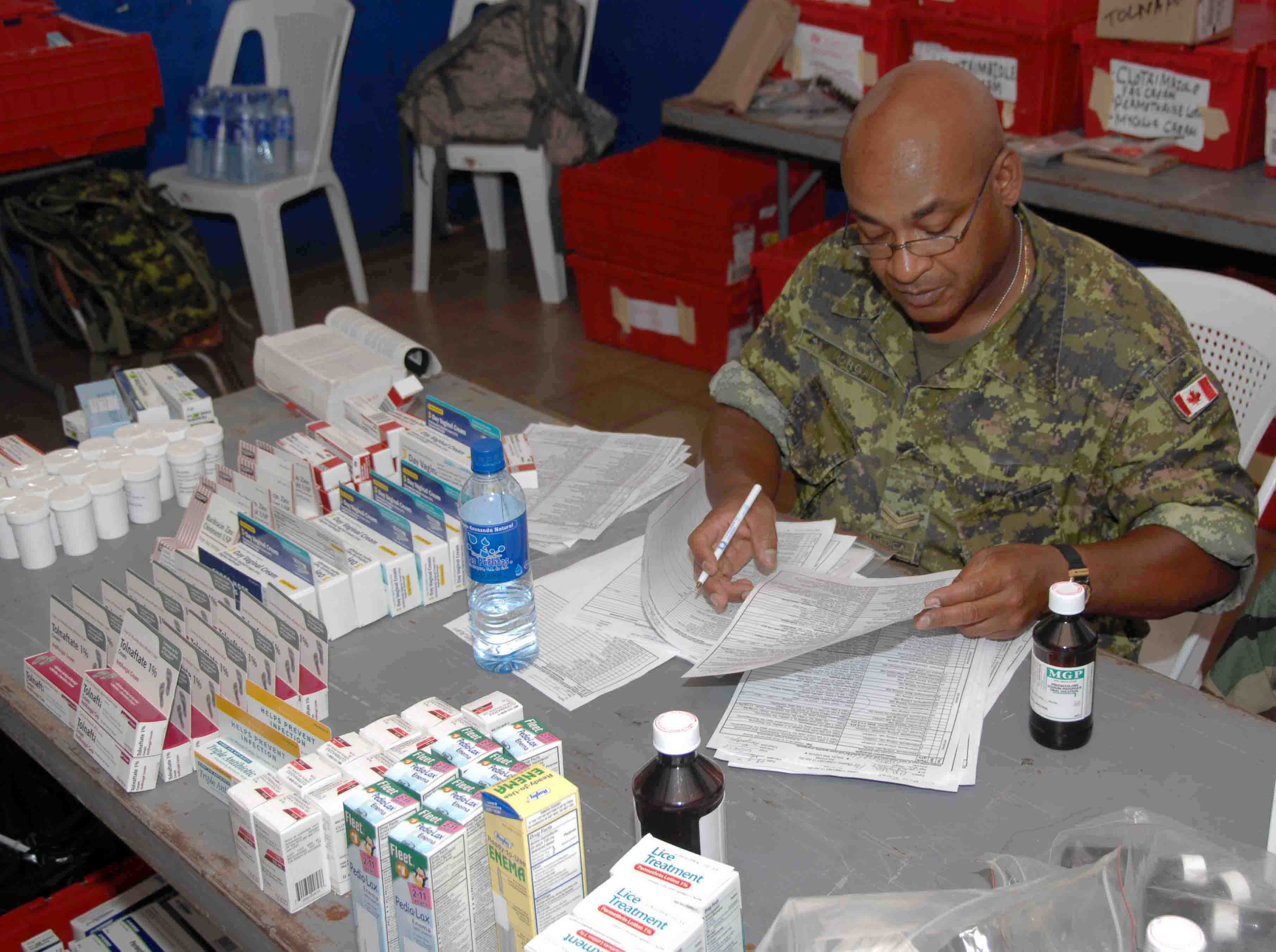 LA UNION, El Salvador (June 28, 2009) Canadian Navy Leading Seaman Robert Morgan tracks medication in the pharmacy at a medical clinic in Loma Larga, El Salvador during a Continuing Promise 2009 medical community service project. Morgan is a medical technician embarked aboard the Military Sealift Command hospital ship USNS Comfort (T-AH 20). Comfort is supporting the four-month Continuing Promise humanitarian and civic assistance mission to Latin America and the Caribbean region. (U.S. Navy photo by Mass Communication Specialist 2nd class Marcus Suorez/Released)